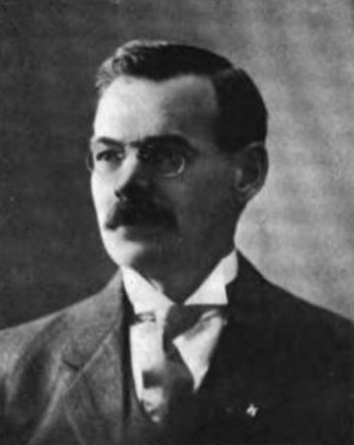 E. A. Cudworth (b.1861), leading early twentieth century architect of Norwich, Connecticut. Designed the state hospitals at Norwich and Mansfield.